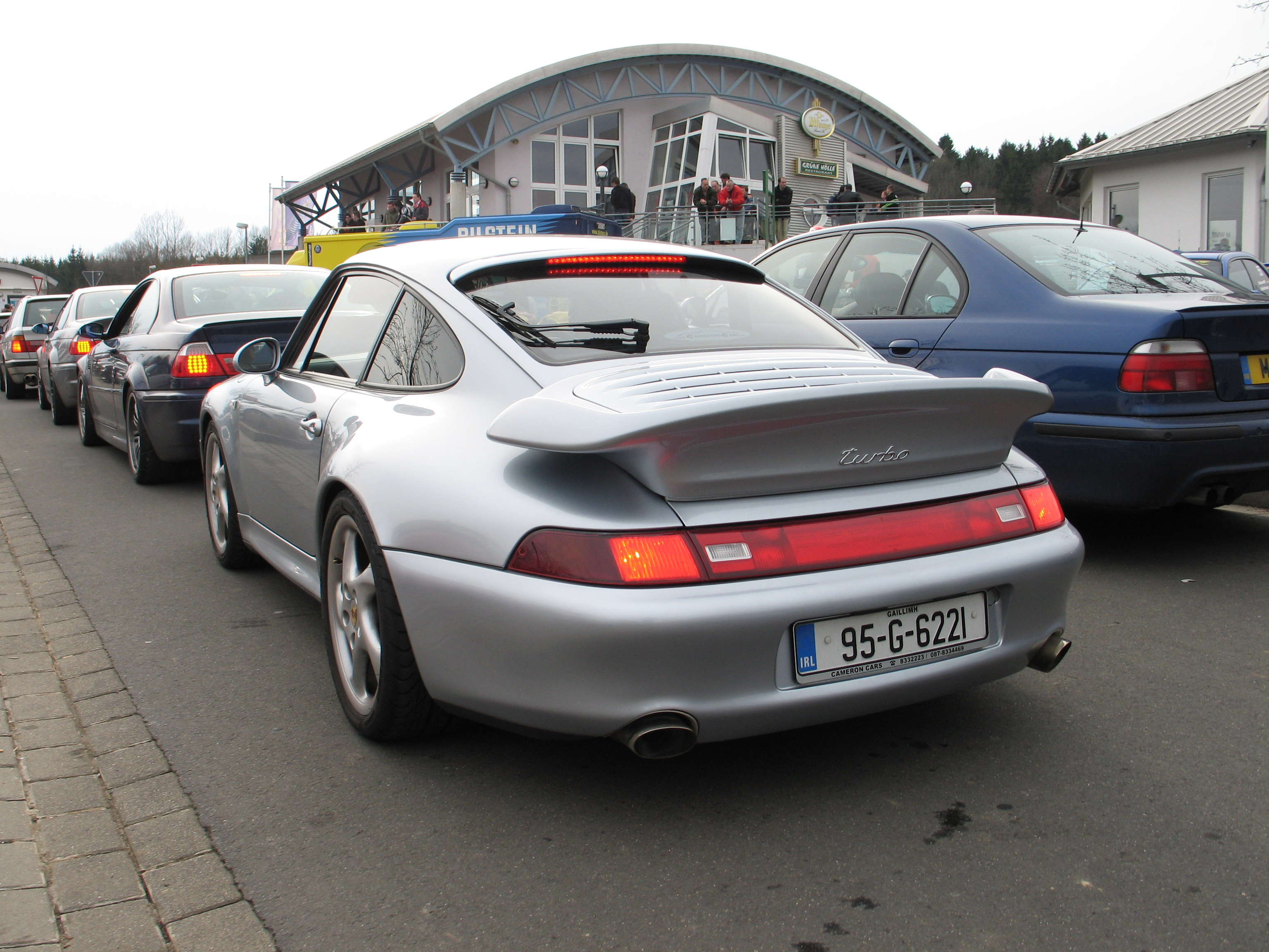 Silver Porsche 993 Turbo coupe, RHD.